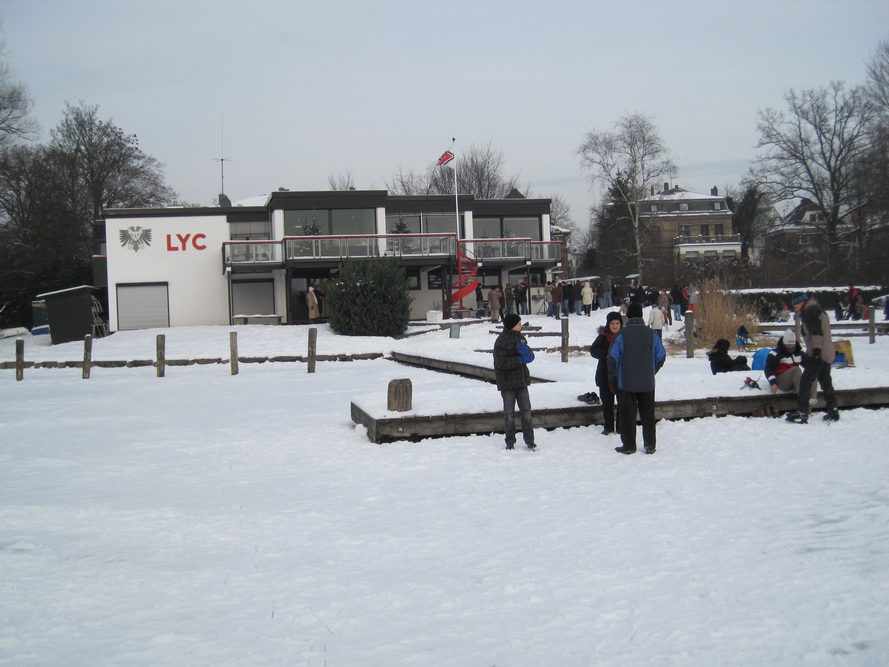 Winter 2010 on frozen river Wakenitz.